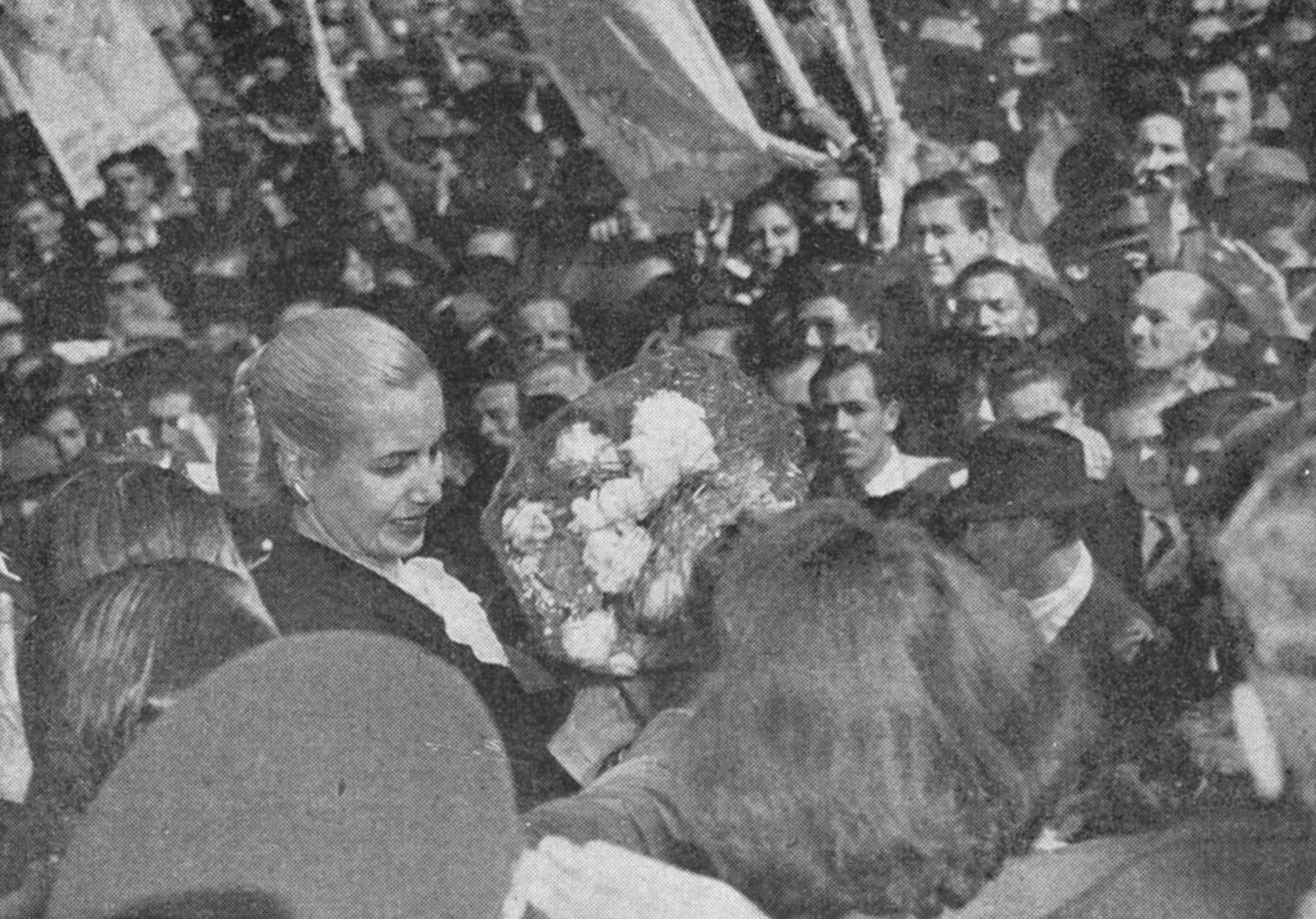 Evita in a crowd